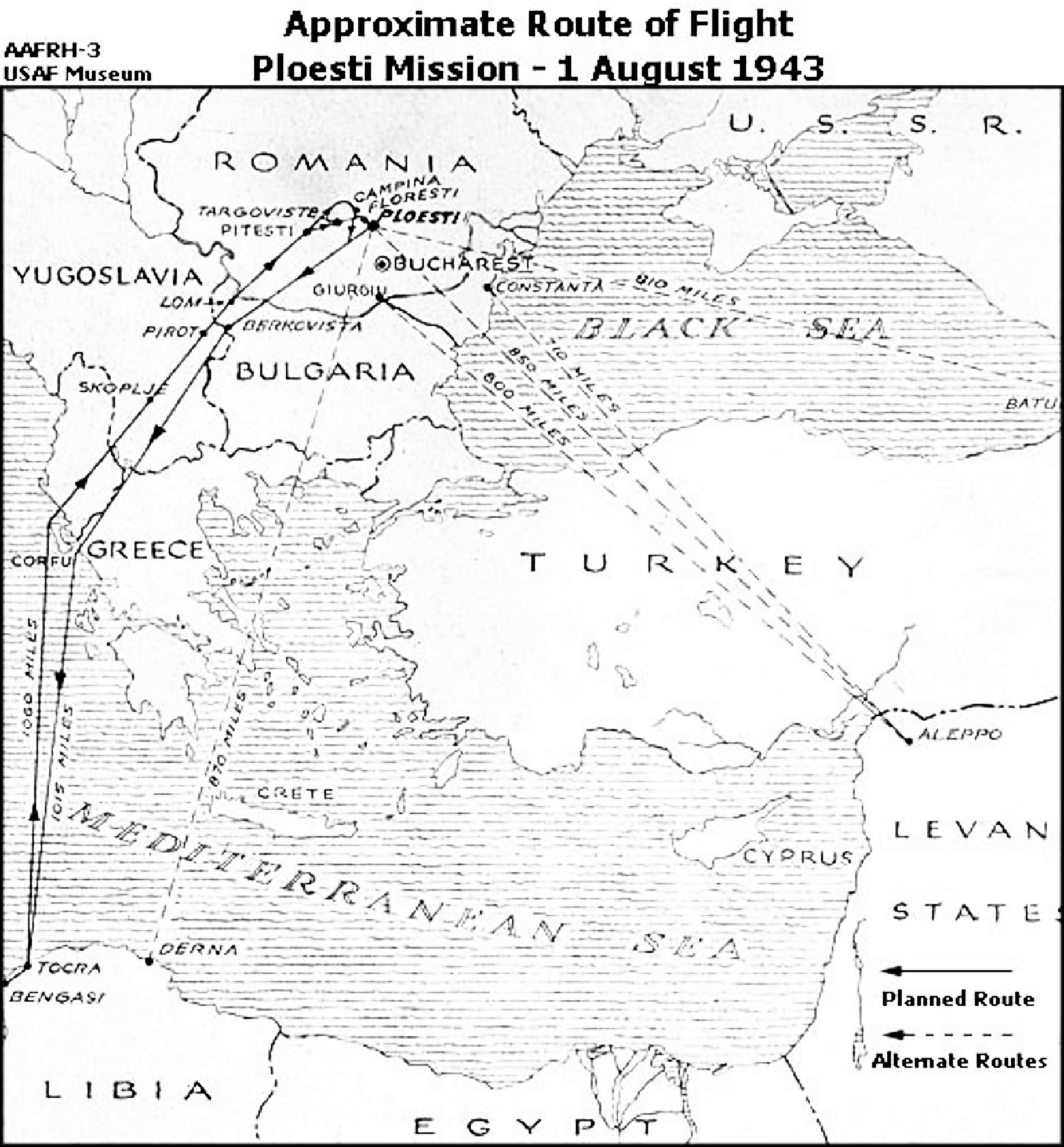 Approximate Route of Flight, Ploesti Mission - 1 August 1943. (U.S. Air Force photo)